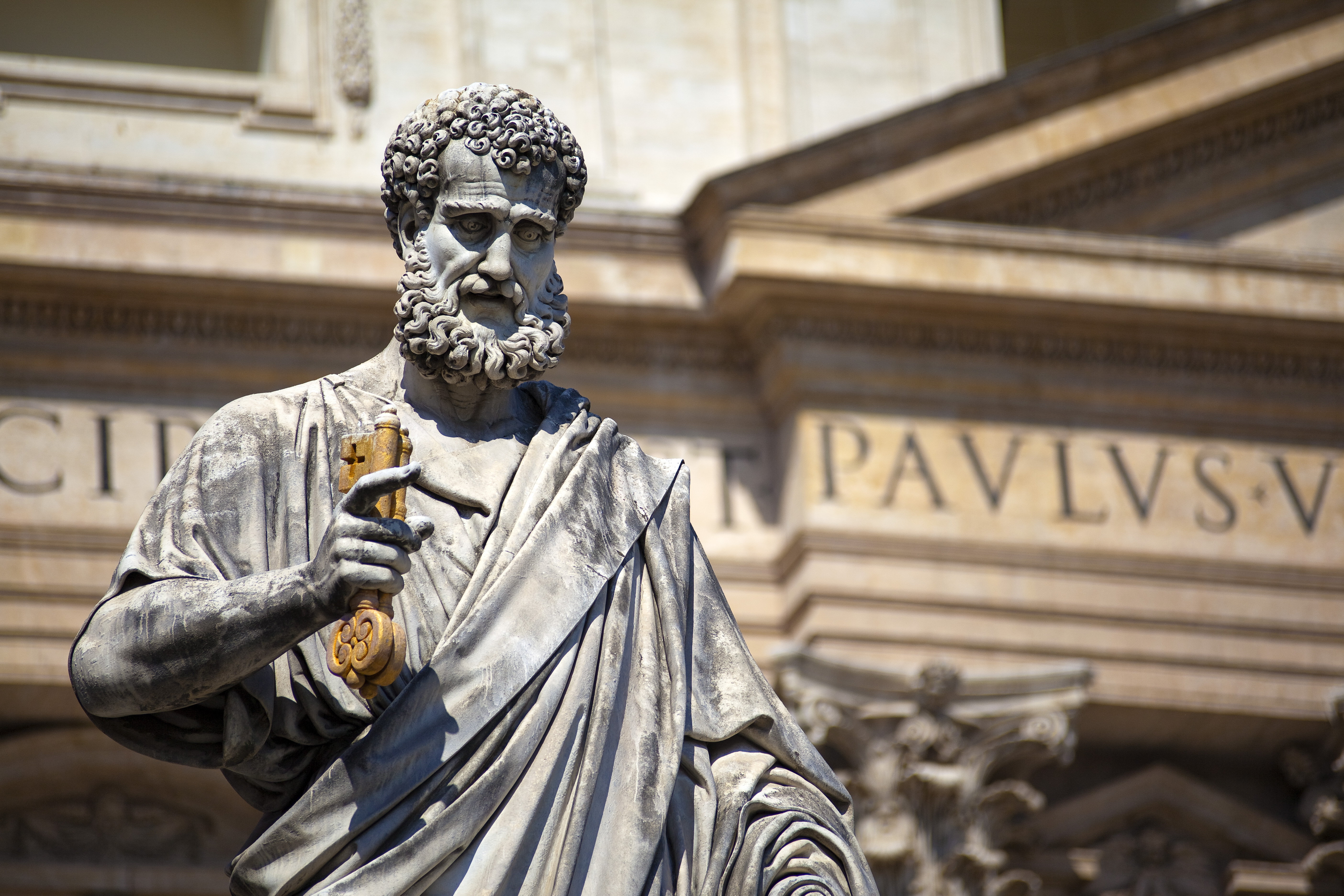 St. Peter in front of St. Peter's Cathedrale